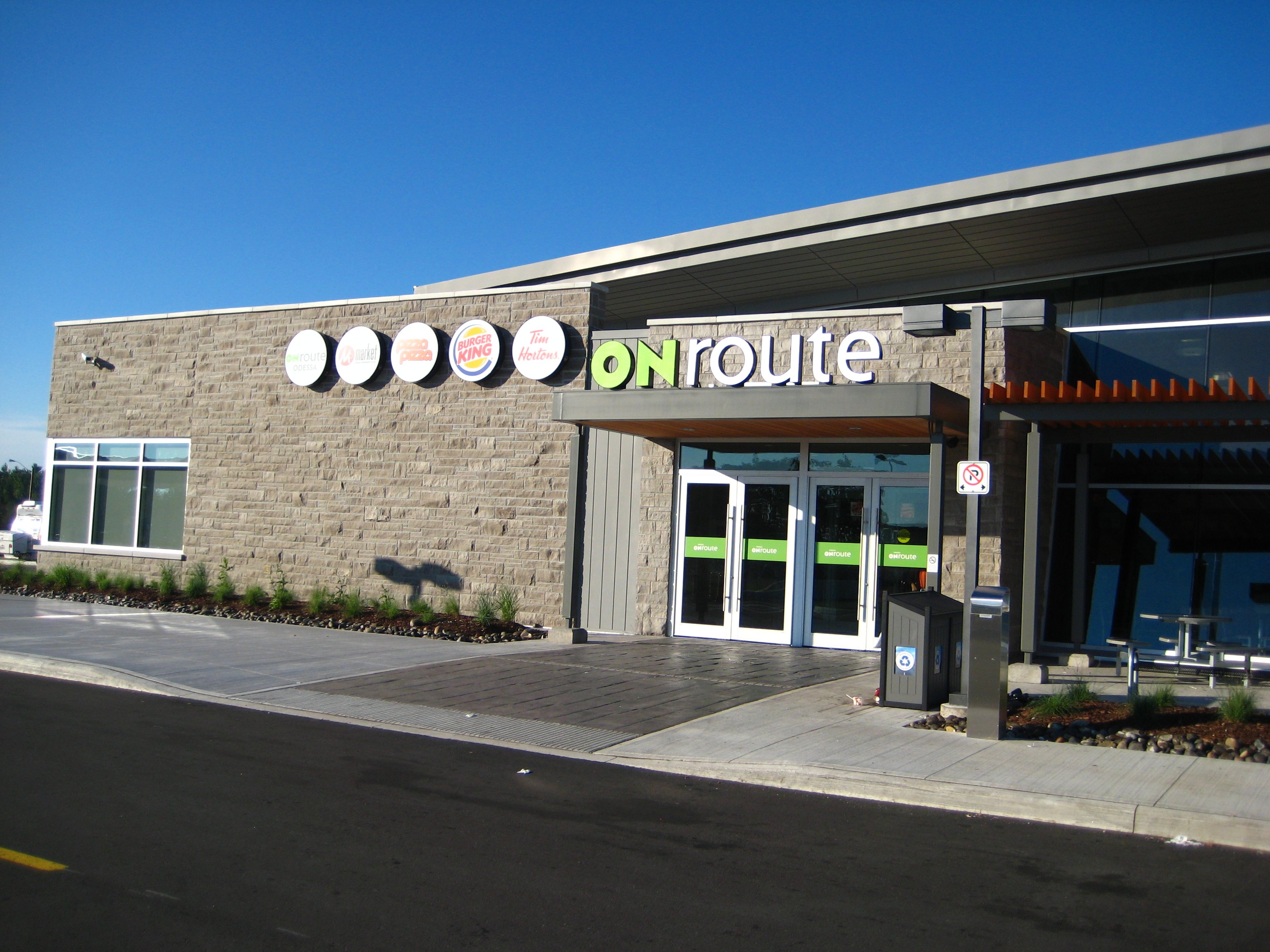 ON route Service Center on Hwy 401 East near Kingston